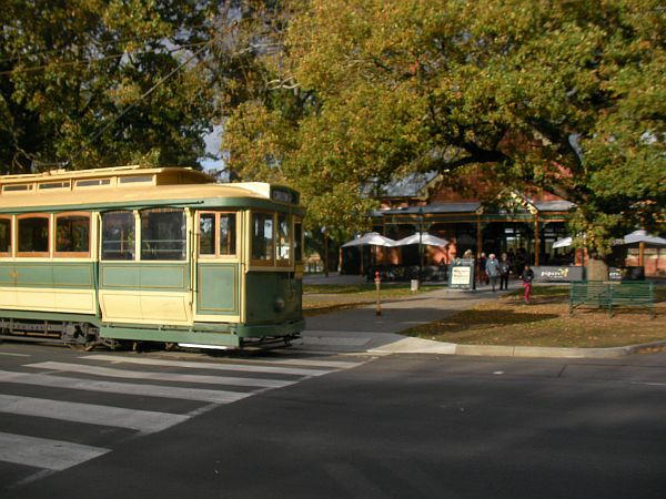 A Ballarat tram passes the Lake Pavillion